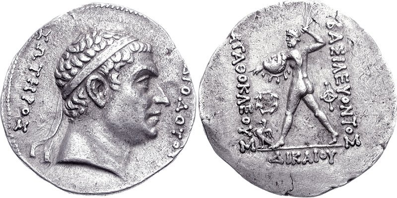 Agathokles commemorative coin for Diodotos Sotiros. Circa 185-180 BC. AR Tetradrachm (16.86 g, 12h). Commemorative issue struck for Diodotos I. Diademed head of Diodotos I right / Zeus Bremetes standing left, preparing to cast thunderbolt